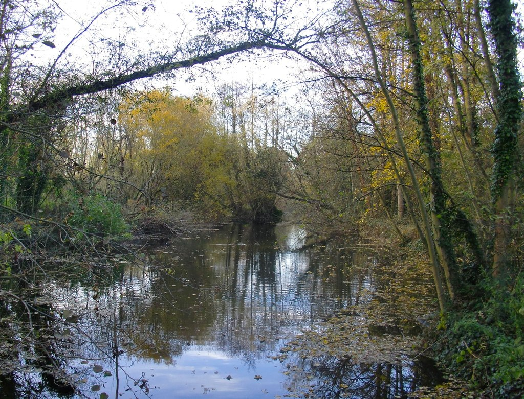 The River Ash, upstream from Squire's Bridge